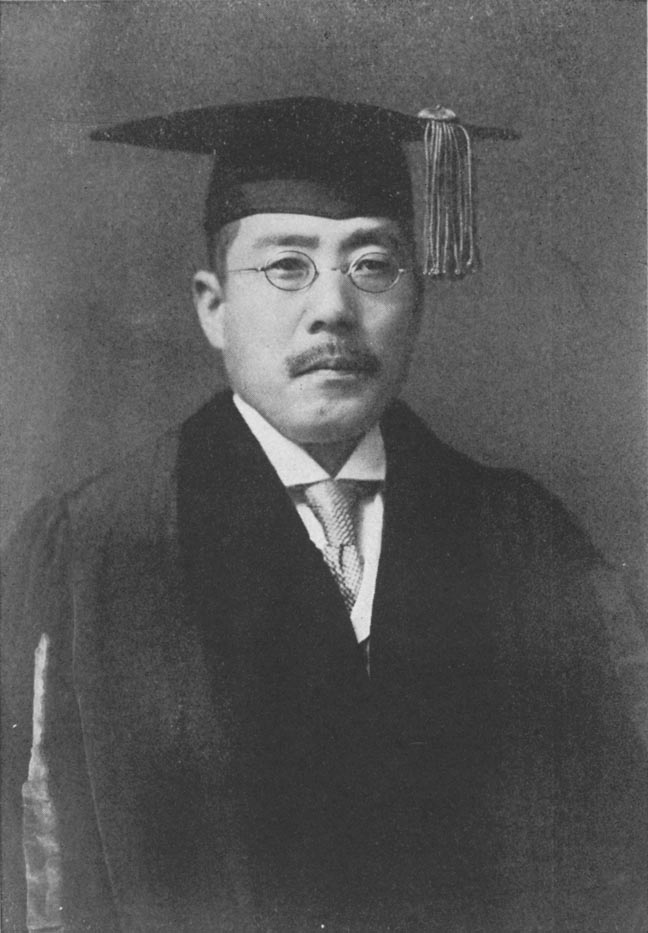 Hanjirō Nakajima.